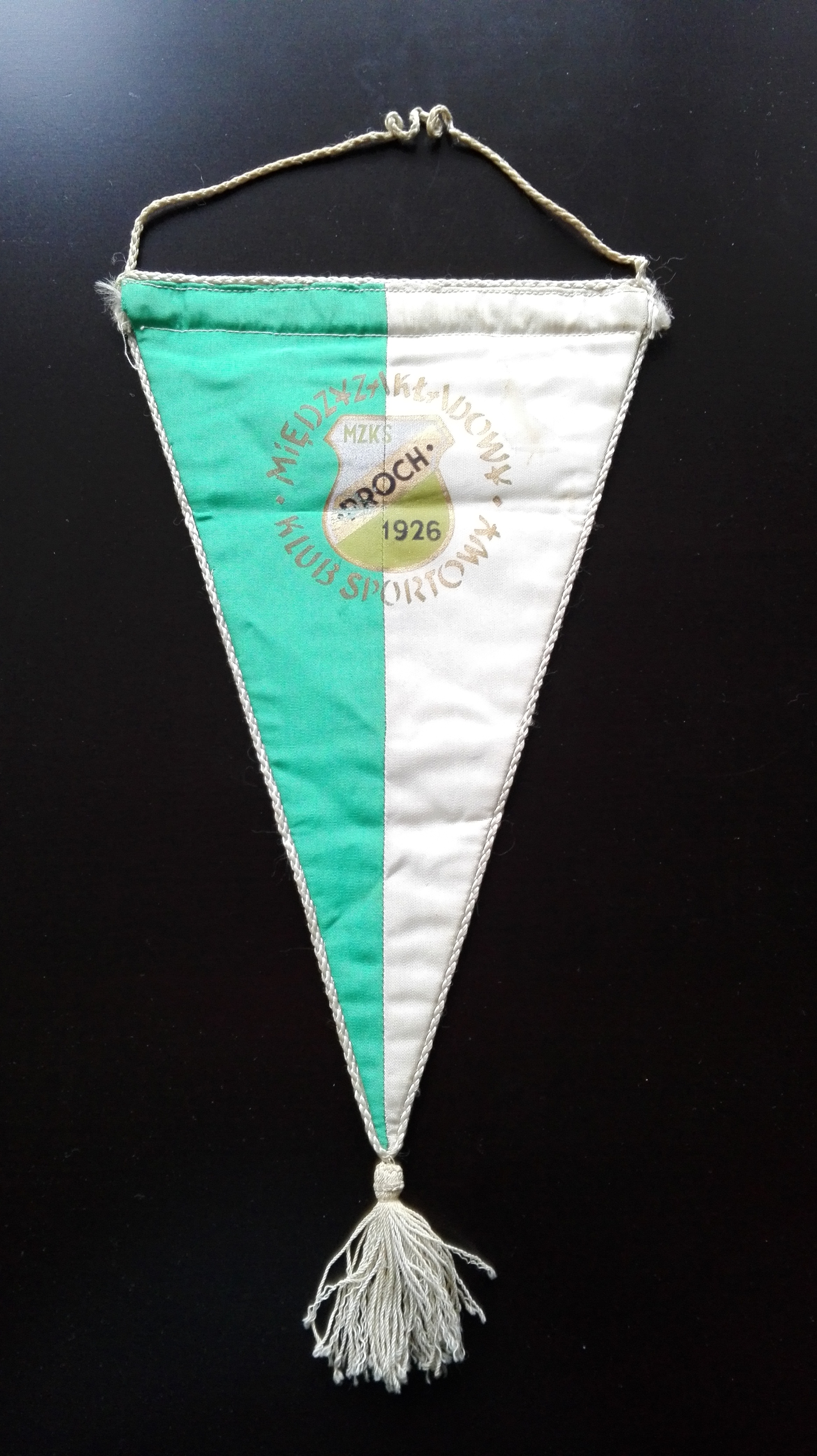 Pennant if MZKS „Proch“ Pionki